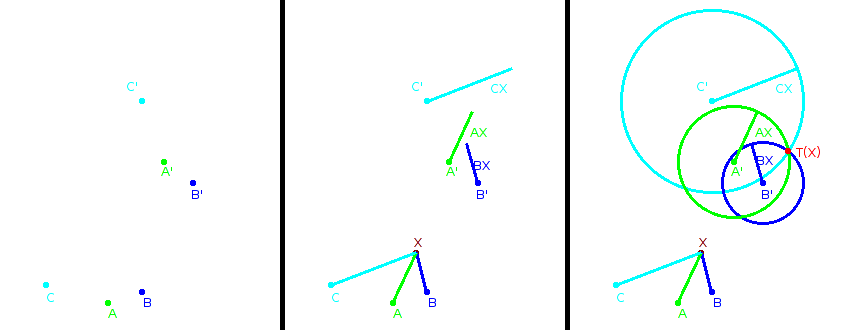 If we have 3 points and their image trought an isometry, the image of every other X is fixed. Made with Kig.